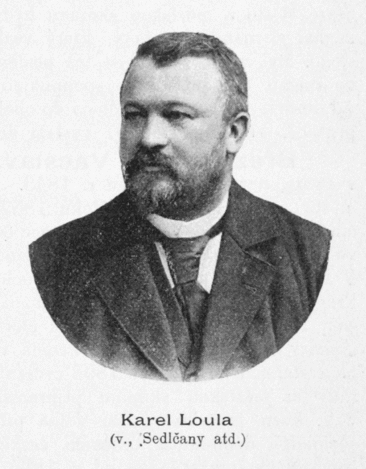 Portrait of Karel Loula (1854-1932), Czech politician.